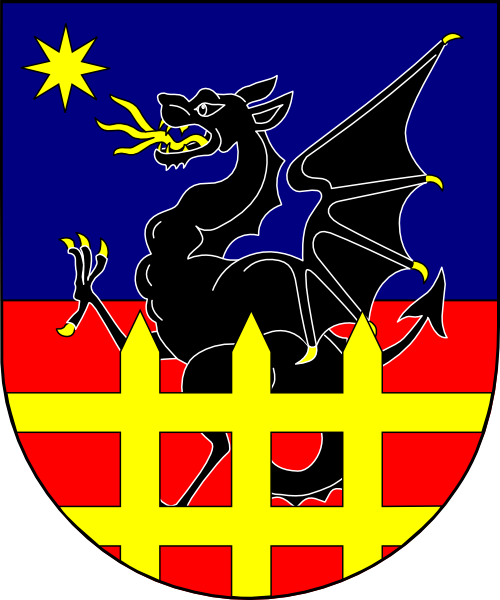 Coat of arms (shield only) of Domenico cardinal Ferrata, Cardinal Secretary of State (1914).